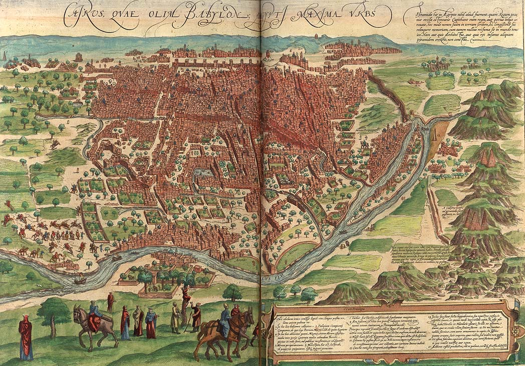 1572 map of Cairo, Cives orbis terrarum - Braun & Hogenberg, 1581